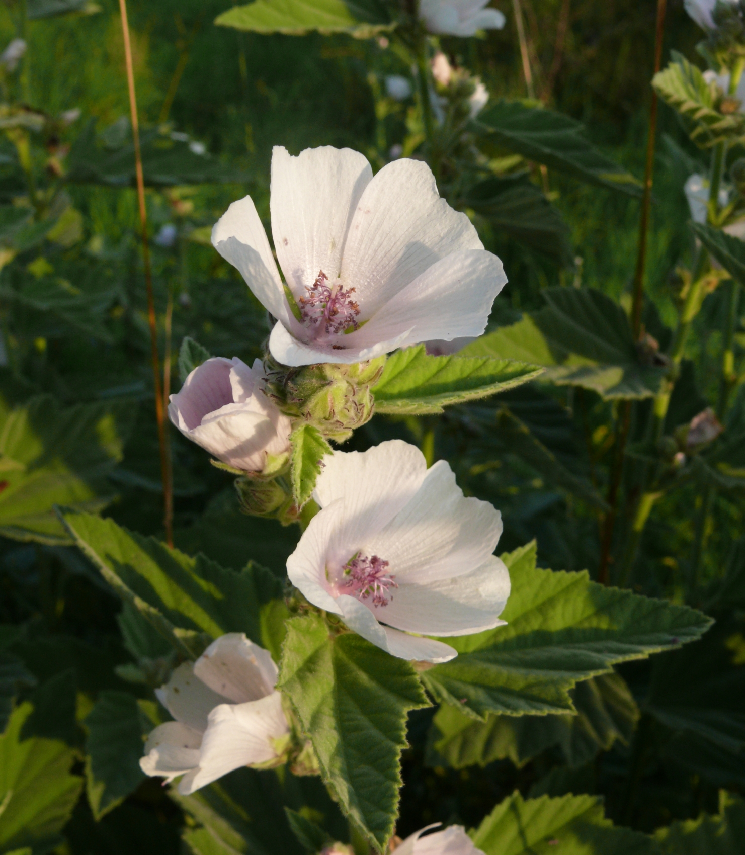 Althaea officinalis, Frankenhöhe, Germany